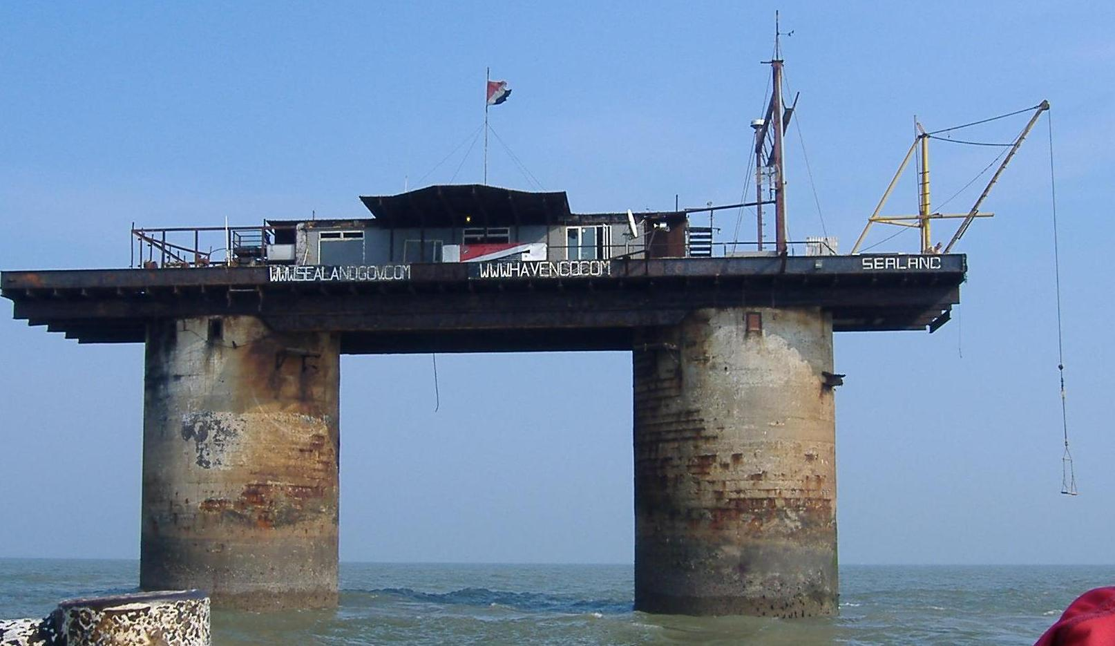 The Sealand rig, a couple months after the fire. Bân-lâm-gú: Se-lân Kong-kok (Sealand) tī tuā-hué liáu-āu ê kuí-kòo-gue̍h āu. 西蘭公國(Sealand)佇大火了後的幾個月後。